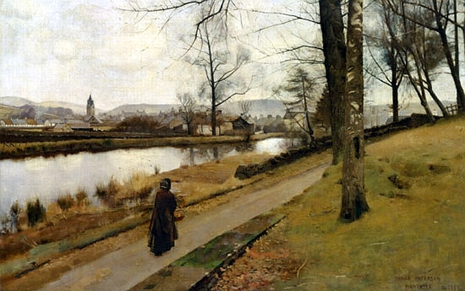 The Last Turning, Winter, Moniaive